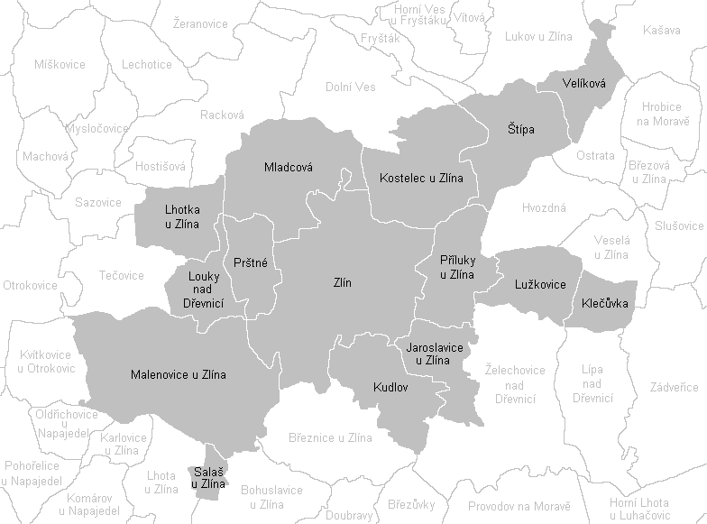 Cadastral map of Zlín